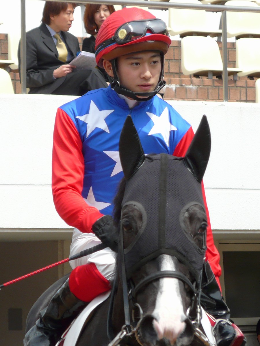 Ryuichi-Sugahara20100418